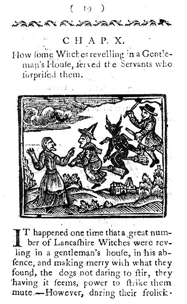 Flying witches, picture from the book "The Famous History of Lancashire Witches", 1780